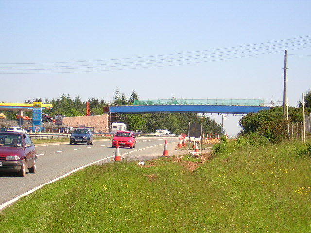 New Bridge works Telegraph Hill A380 Devon